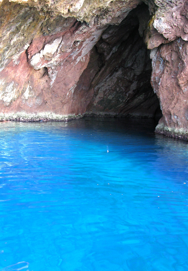 Grotto on Capraia Isola, in Arcipelago Toscano National Park.